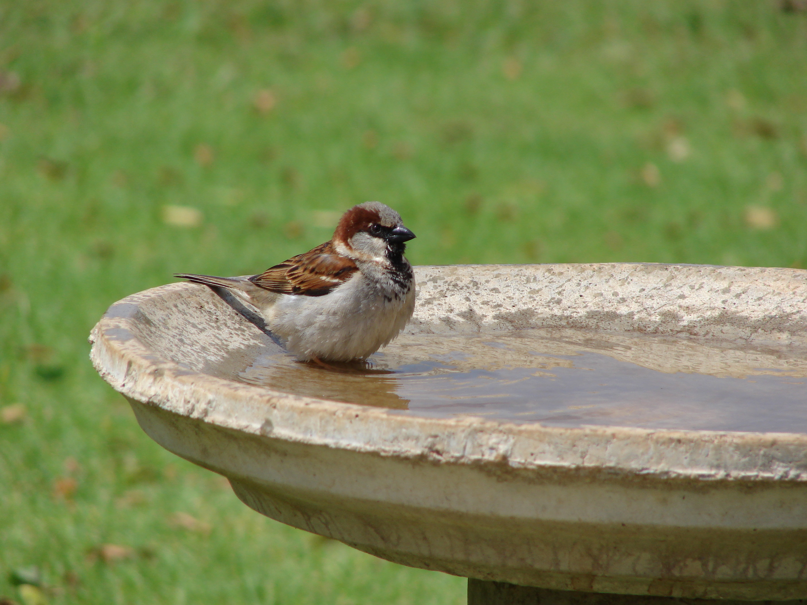 A male House Sparrow in a birdbath in Makawao, Maui